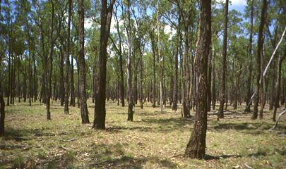 Eucalyptus fibrosa